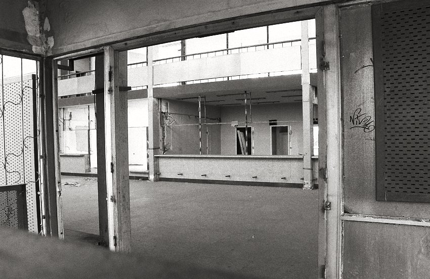 Disused for several years building the main railway station in Zgorzelec (Lower Silesia), Poland. Interior view.